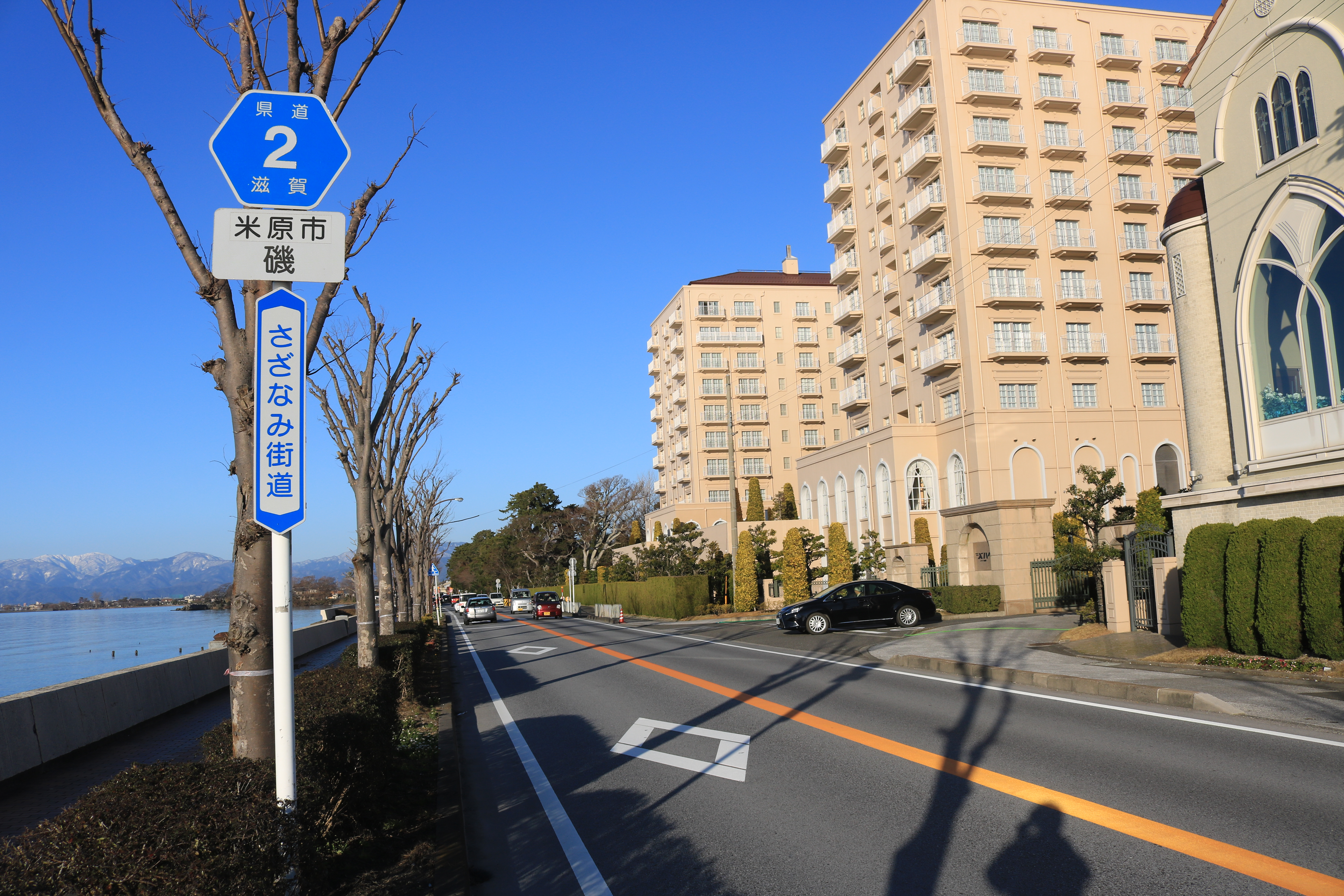 Shiga Prefectural Road Route 2 in Iso, Maibara, Shiga prefecture, Japan.